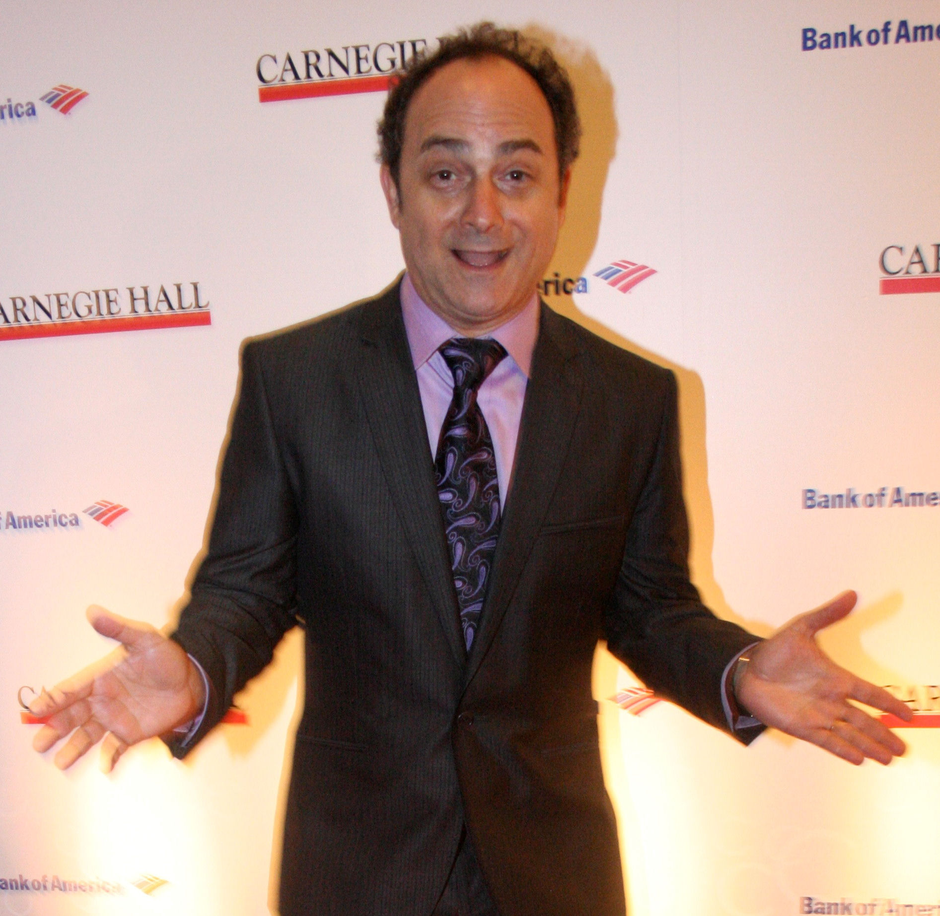 Kevin Pollak at the 120th Anniversary of Carnegie Hall in MOMA, New York City in April 2011.